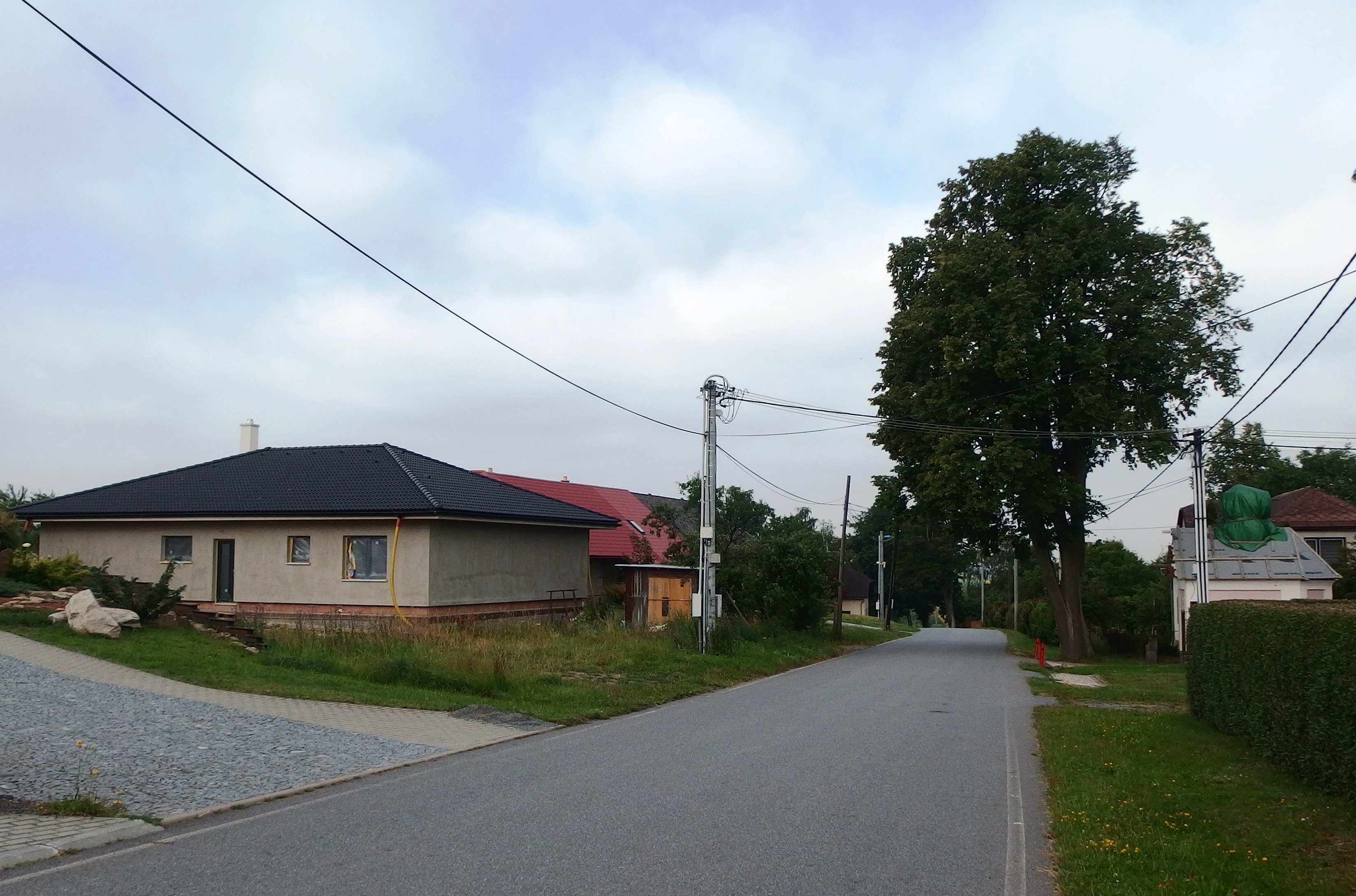 Žďár nad Sázavou, Czechia, part Mělkovice.